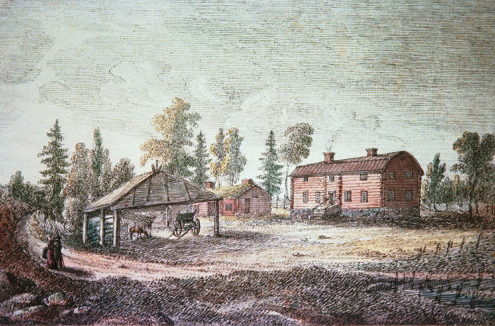 Torpet Skruven, torp under Säby gård, Järfälla, teckning av Axel Fredrik Cederholm, 1813.